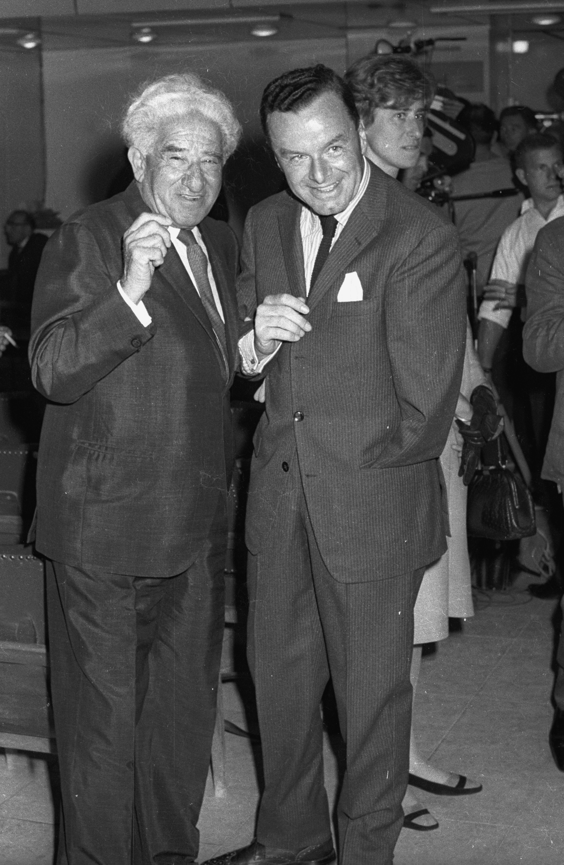 Meir Weisgal with newly appointed German Ambassador Rolf Paulus.